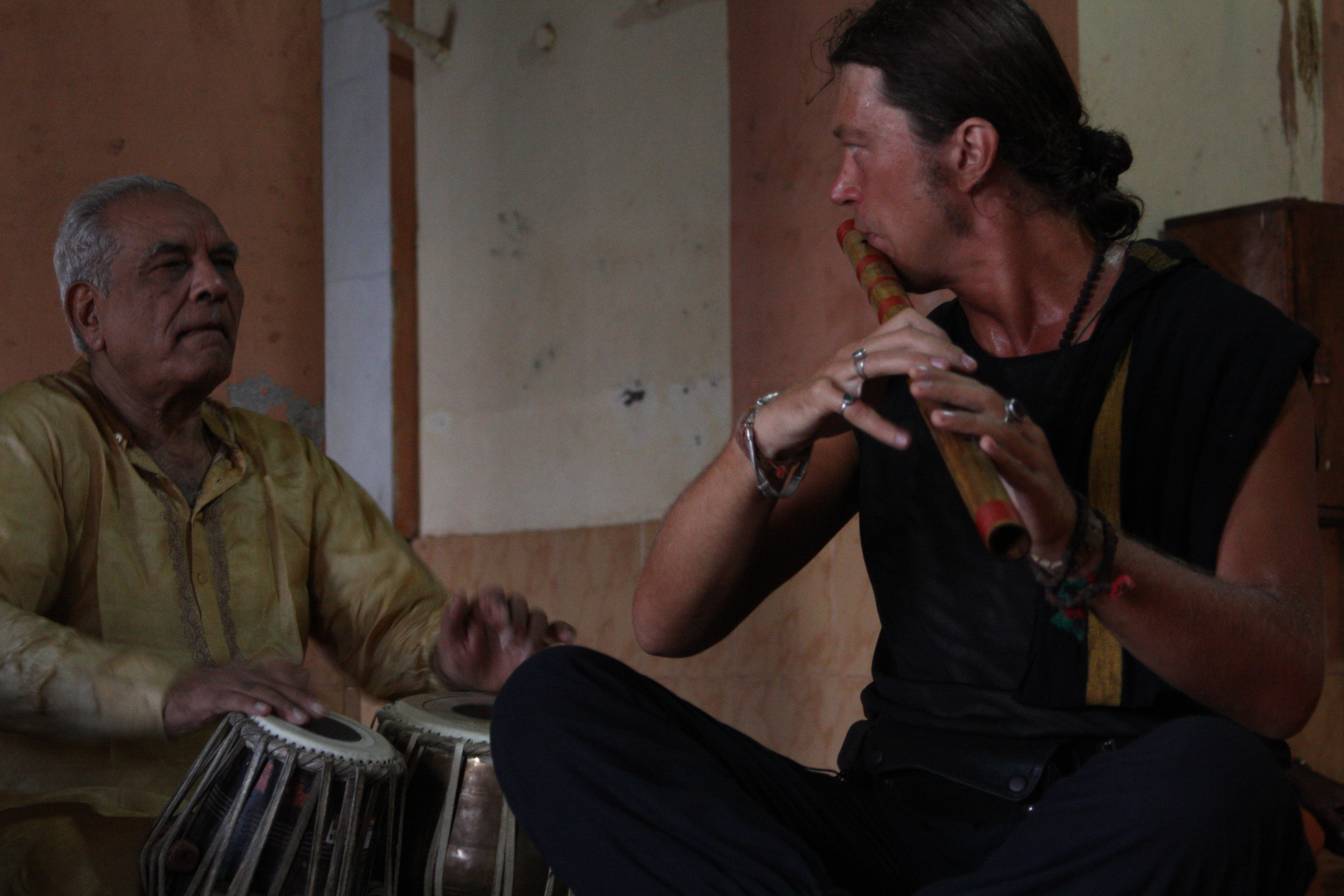 Hashmat Ali Khan and Subhash Prem Giri. Concert in India.